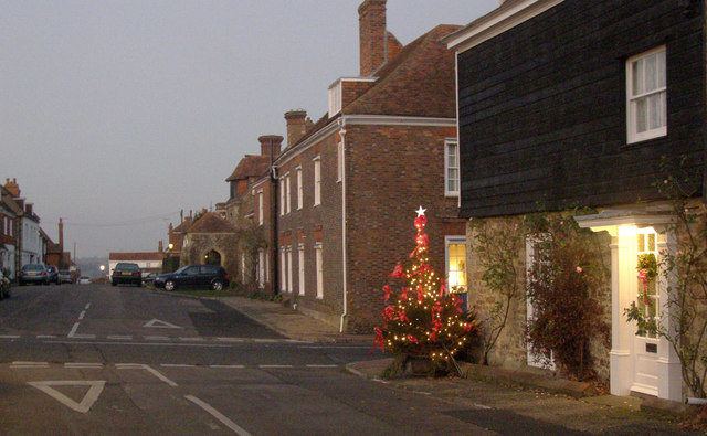 Castle Street, Winchelsea The street plan of Winchelsea follows a Roman plan with wide streets and square blocks of houses. This is castle street taken from St Thomas's Street to the east of the church.